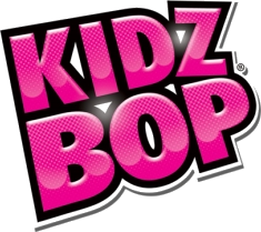 Logo of KidzBop